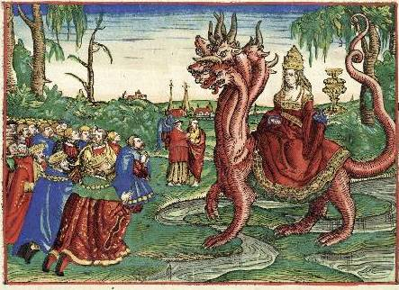 Coloured woodcut from Luther's bible translation for Revelation 17: I saw a woman sitting on a scarlet beast that was full of blasphemous names, and it had seven heads and ten horns. The woman was arrayed in purple and scarlet, and adorned with gold and jewels and pearls, holding in her hand a golden cup full of abominations and the impurities of her sexual immorality. And on her forehead was written a name of mystery: “Babylon the great, mother of prostitutes and of earth’s abominations. With her three-tiered tiara the woman on the beast is identified as the pope and his Roman catholic church of Rome, the antichrist keeping the church in "Babylonian captivity" as Luther had written in 1520.